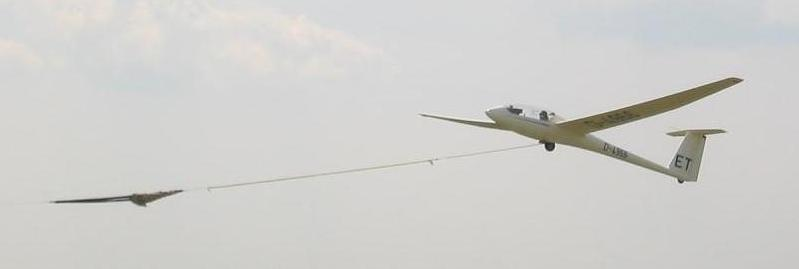 Starting glider at airfield Lüsse, place of the world championships 2008. The village Lüsse is an incorporated part of the town Belzig in Brandenburg, Germany.